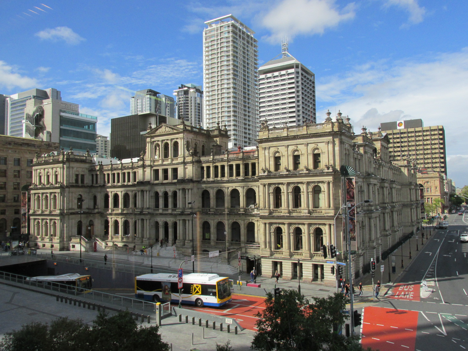 Treasury Casino as seen from the Brisbane Square library.